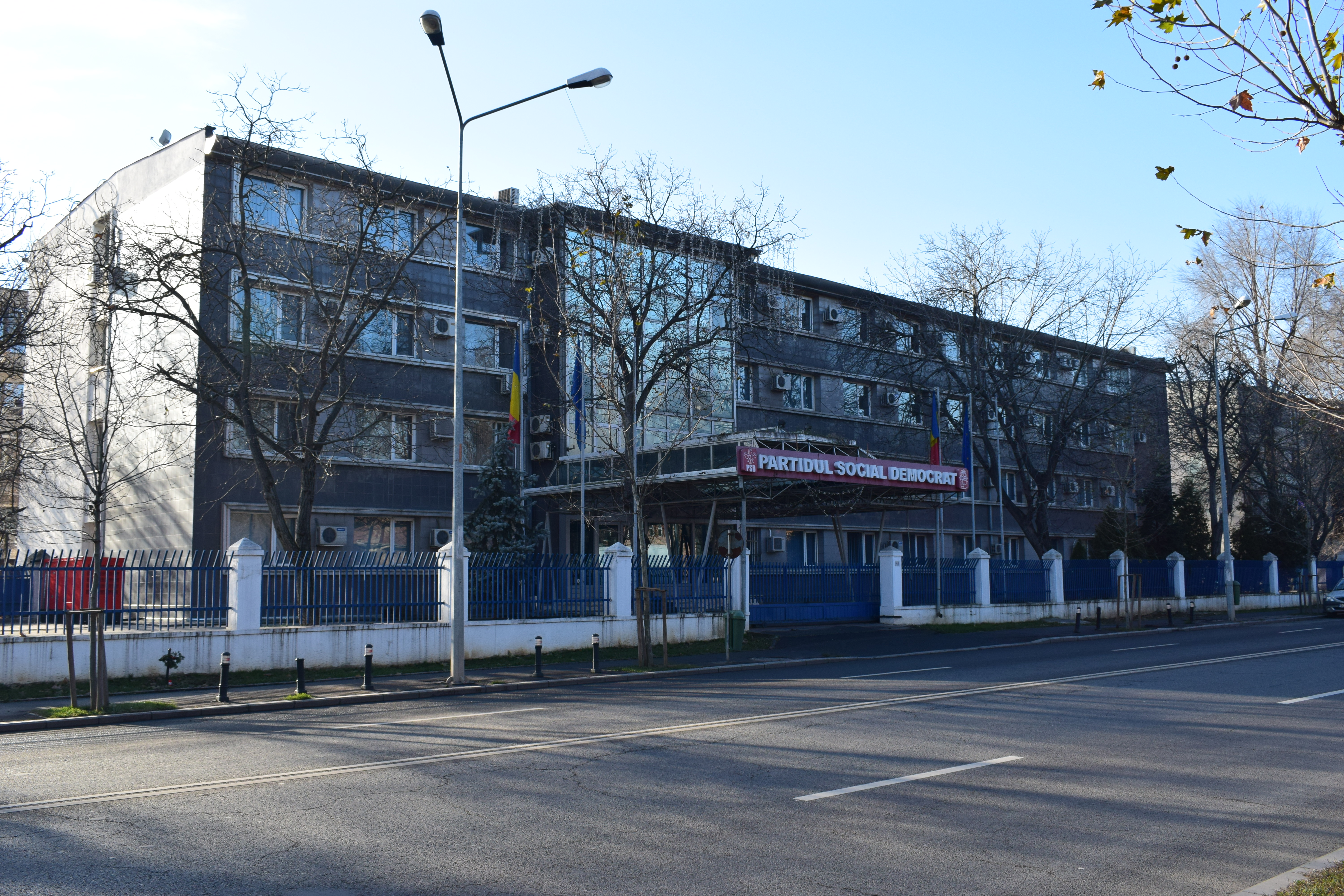 The headquarter of the Social Democrat Party of Romania (PSD) in Băneasa neigborhood, Bucharest